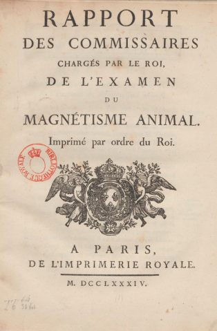 Frontispiece of the Rapport des Commissaires de l'Examen du Magnétisme Animal written by Jean Sylvain Bailly in 1784.